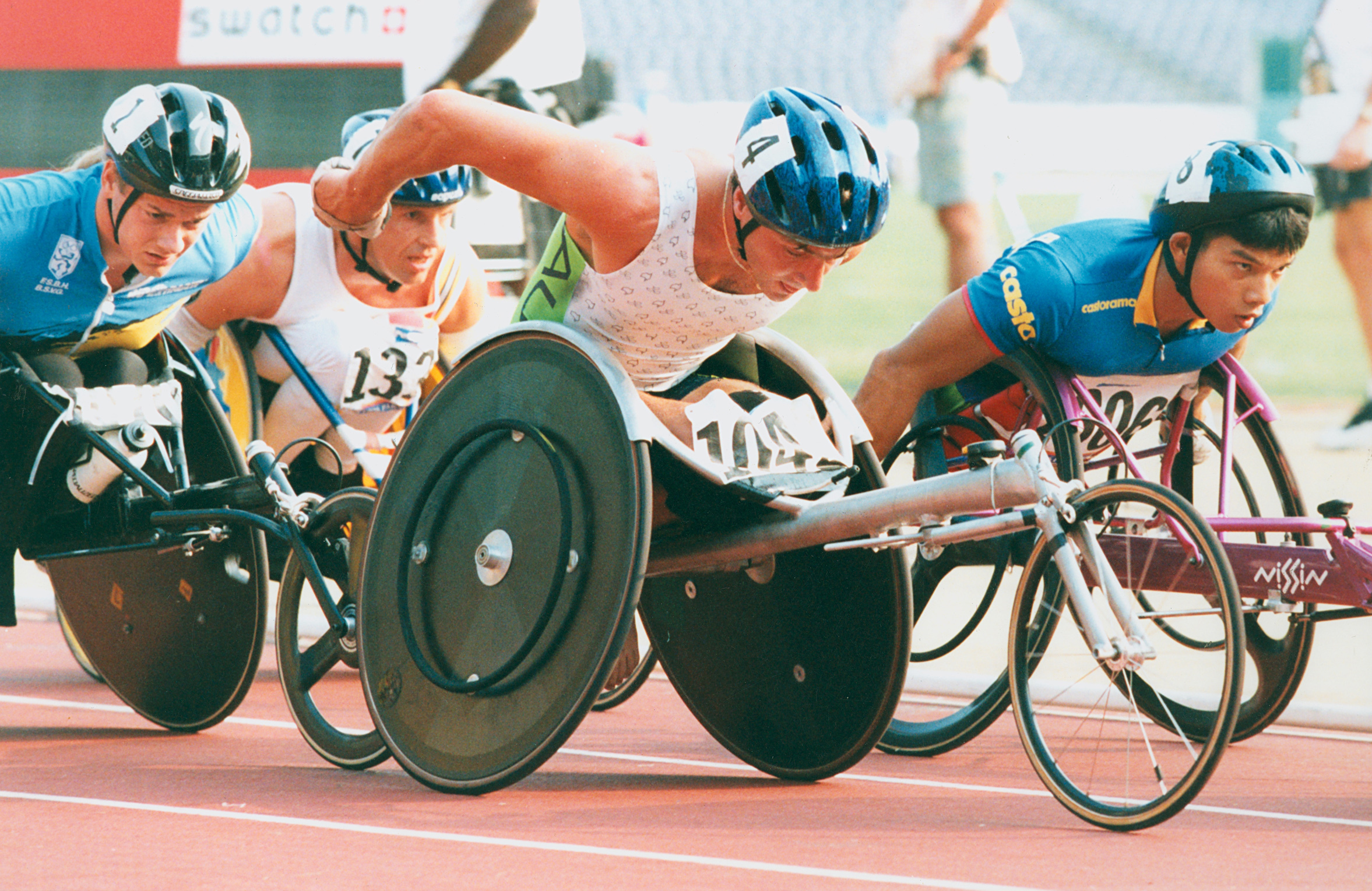 Australian T53 wheelchair athlete Paul Wiggins in action on the track at the 1996 Atlanta Paralympic Games